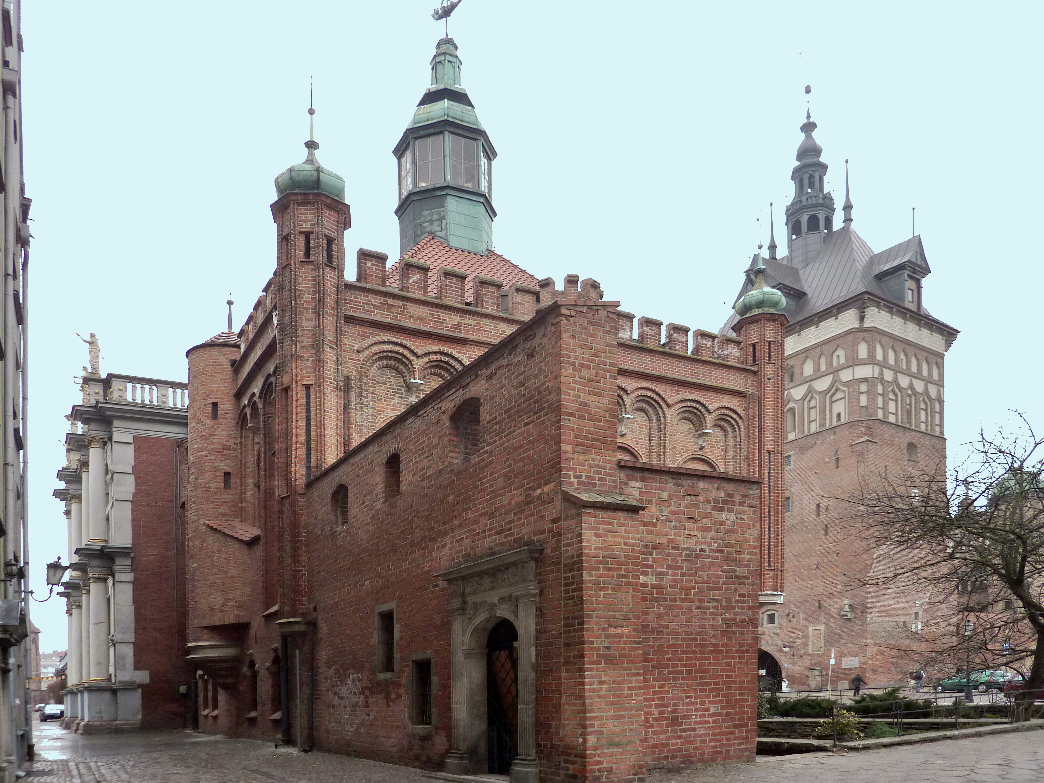 Mansion of the Society of Saint George in Gdańsk